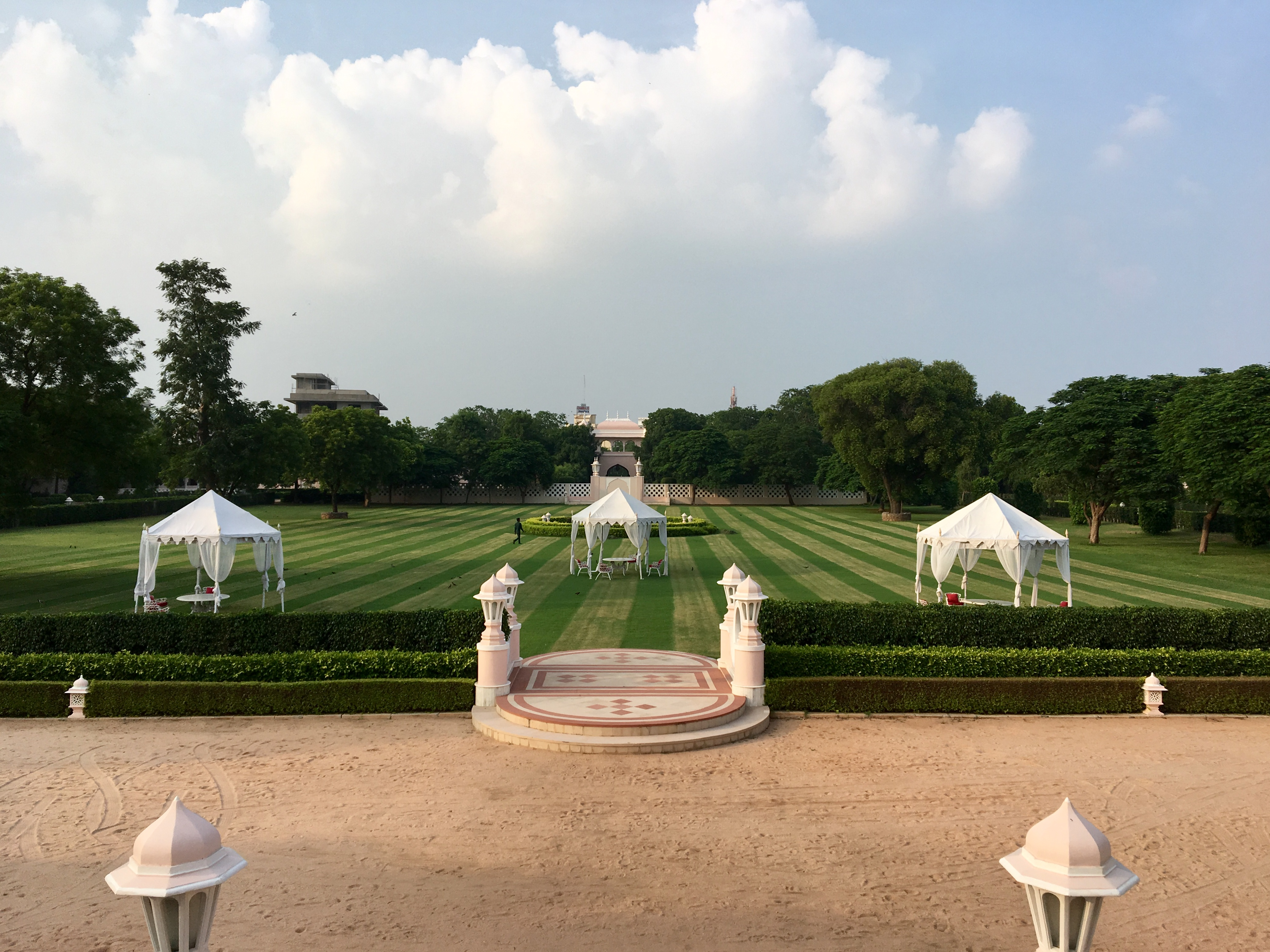 Rajmahal Palace, former private residence of the Maharajah of Jaipur, now a hotel.